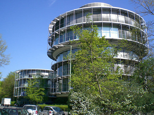 Softlab1978-79